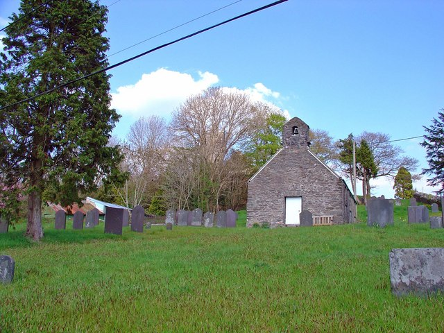 Eglwys Fach, Ysbyty Ystwyth This is the original parish church of Ystbyty Ystwyth. It was replaced by the new church, behind the trees on the hilltop, in the late 19th century, thus saving it from Victorian restoration. Originally dedicated to St John the Baptist: the village gets its name from a hospitium ("ysbyty") of the Knights of St John.